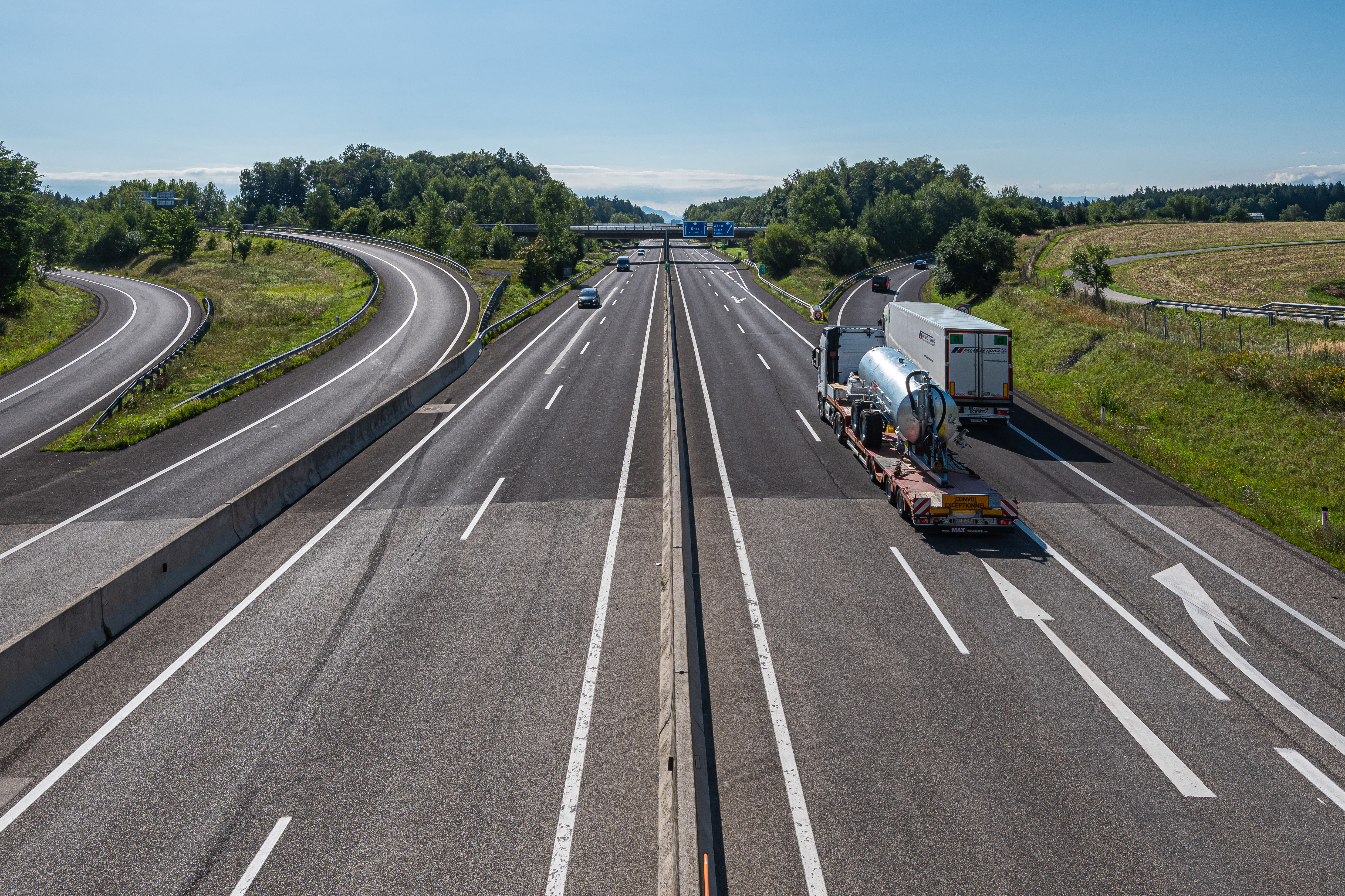 At the junction Voralpenkreuz the austria motorway Innkreisautobahn A 8 merges into Pyhrnautobahn A 9. 'Q545000' (Q545000)